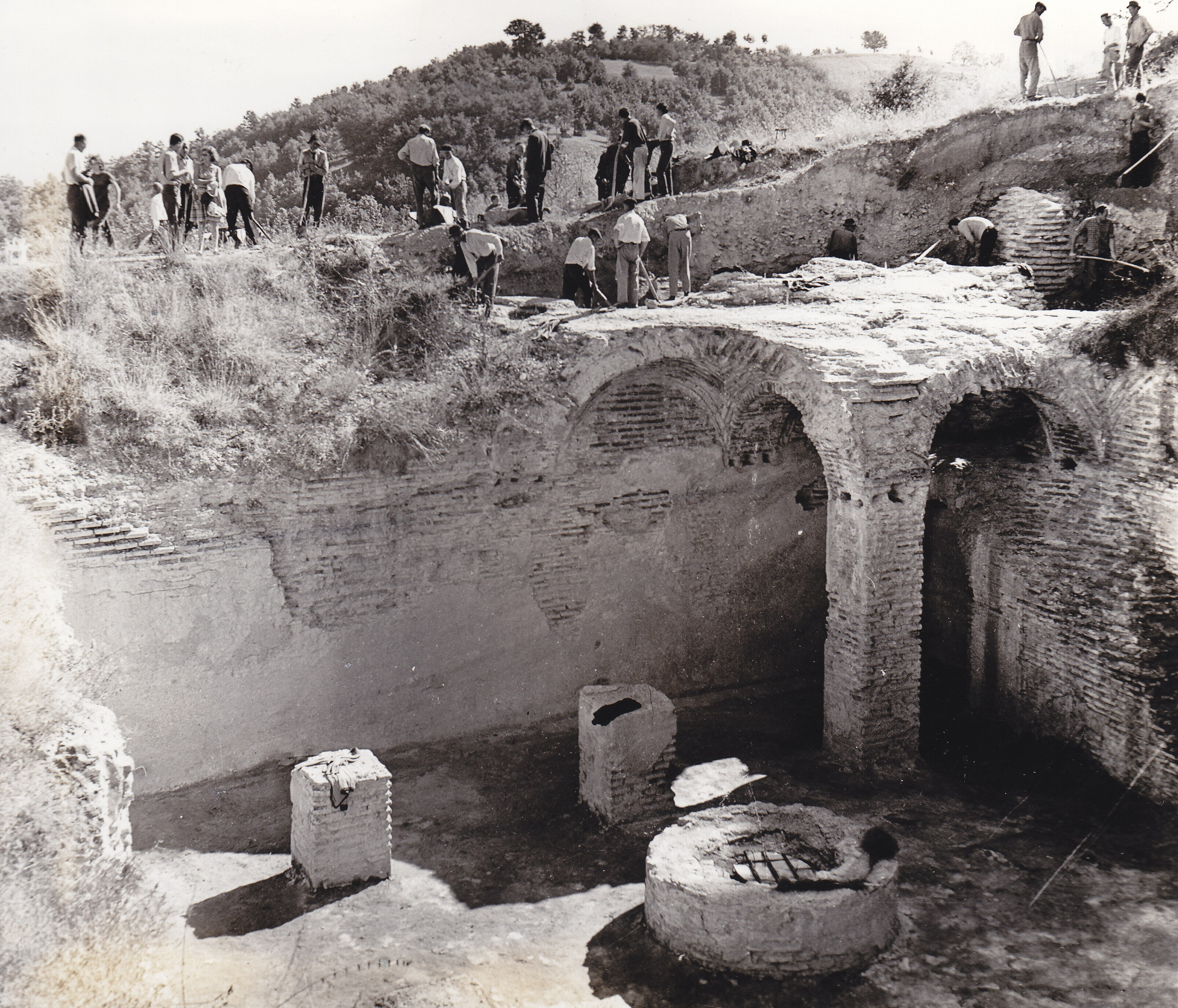 Archeological site Kulina in Gradište